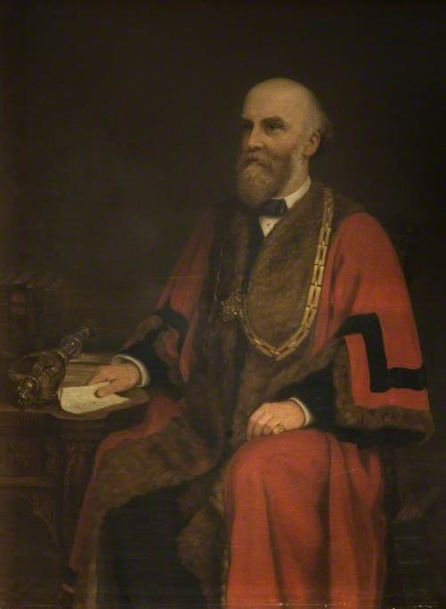 Josh Hawkins, Mayor of Bedford in Bedfordshire, England